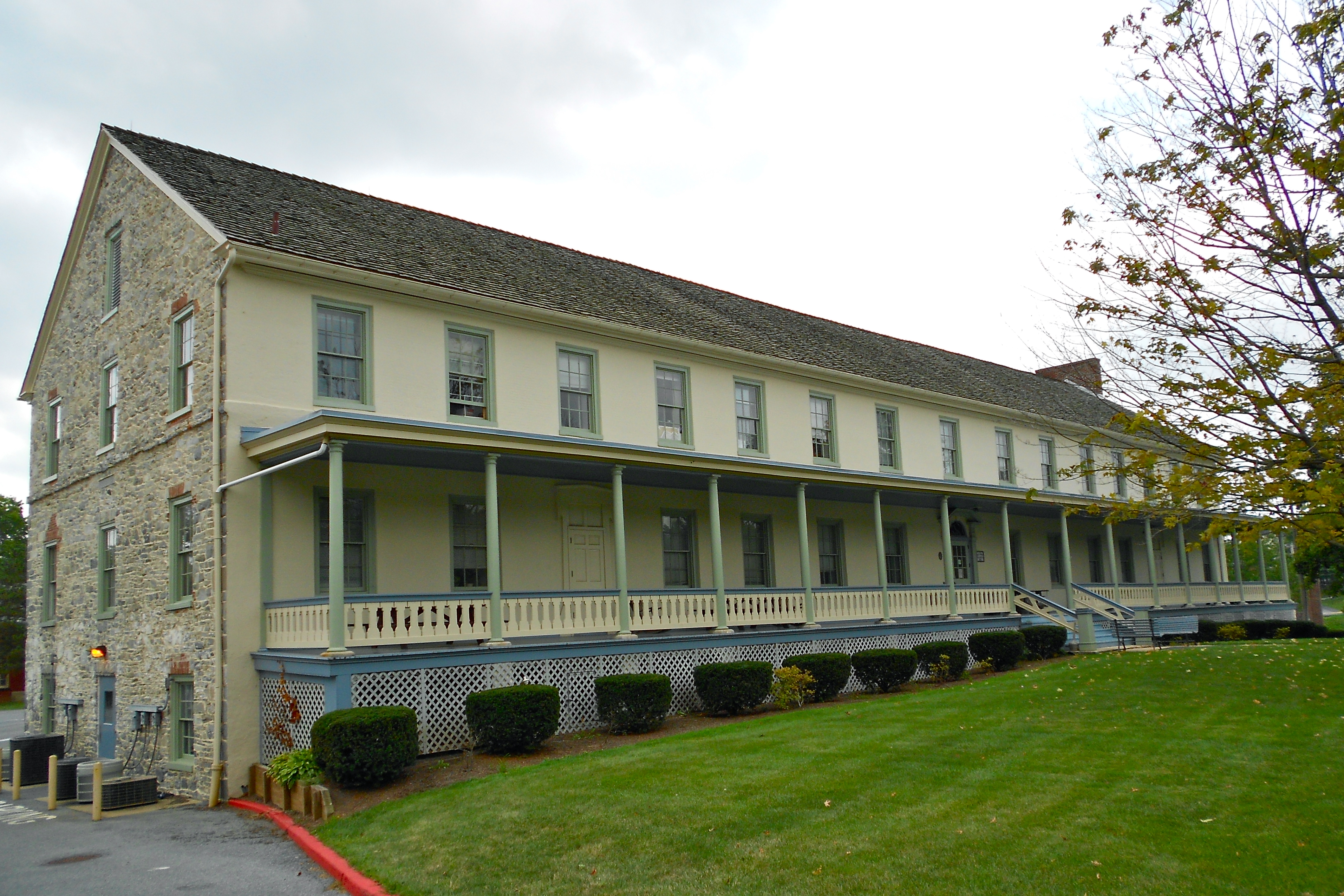 Lancaster County House of Employment Built 1799 as a Poor House. Also known as "Building Number 1". Just east of the city of Lancaster.